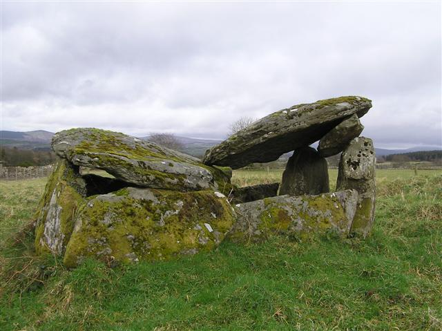 Main chambered grave at Ballyrenan (2) I was here a couple of years ago, nothing much changed, but it still impresses me